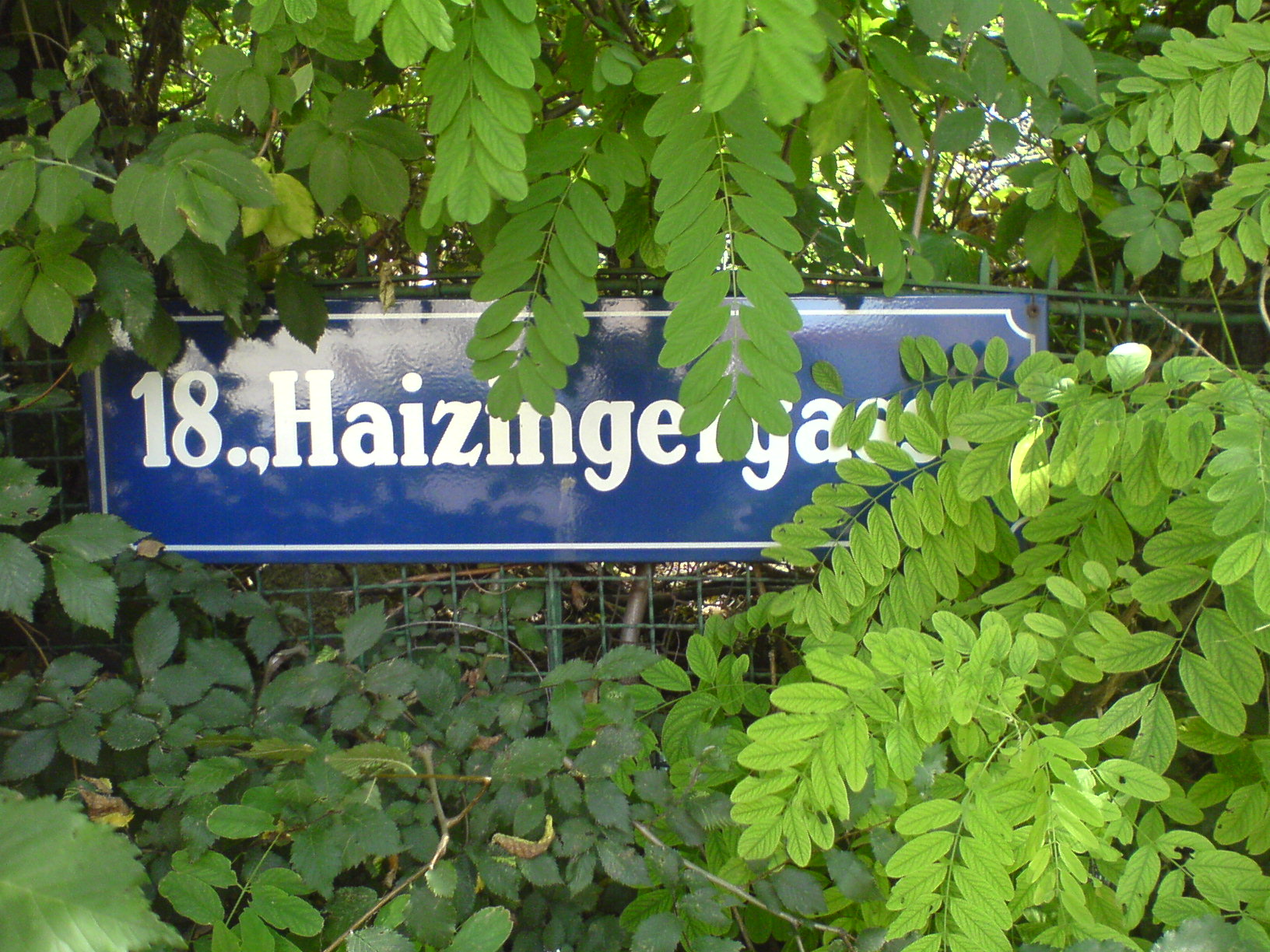 Vienna Street Sign